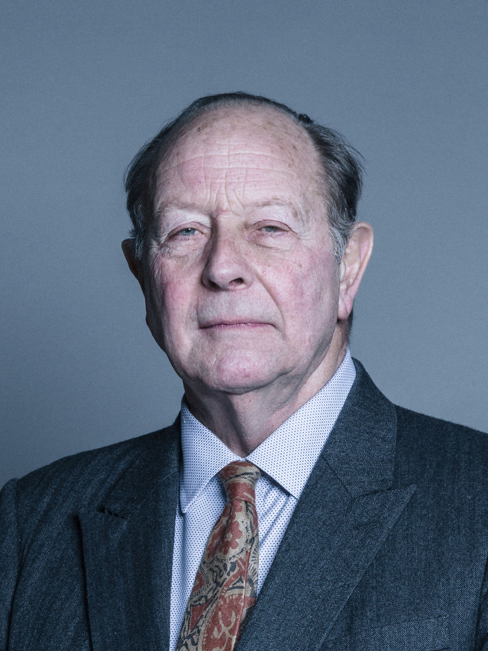 Official portrait of Lord Hamilton of Epsom